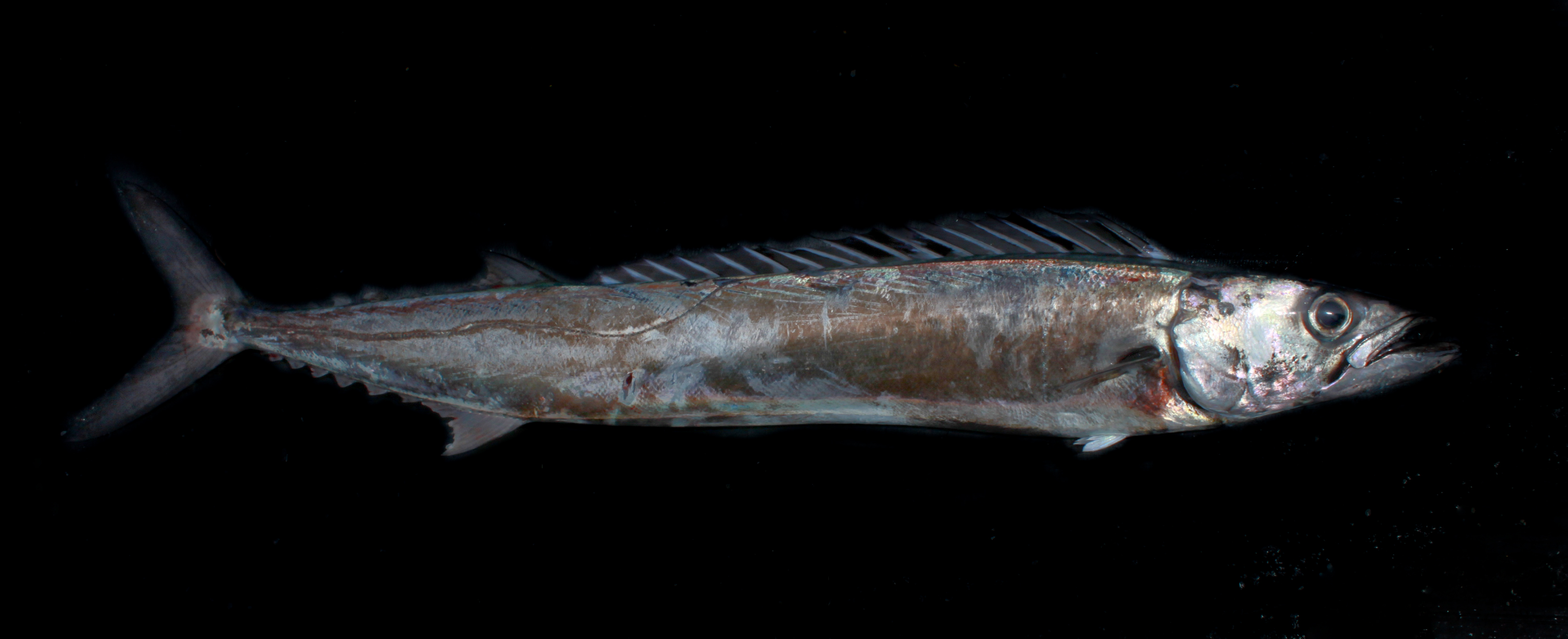 Thyrsites atun, Barracouta or snake Mackerel, also known as Snoek in South Africa